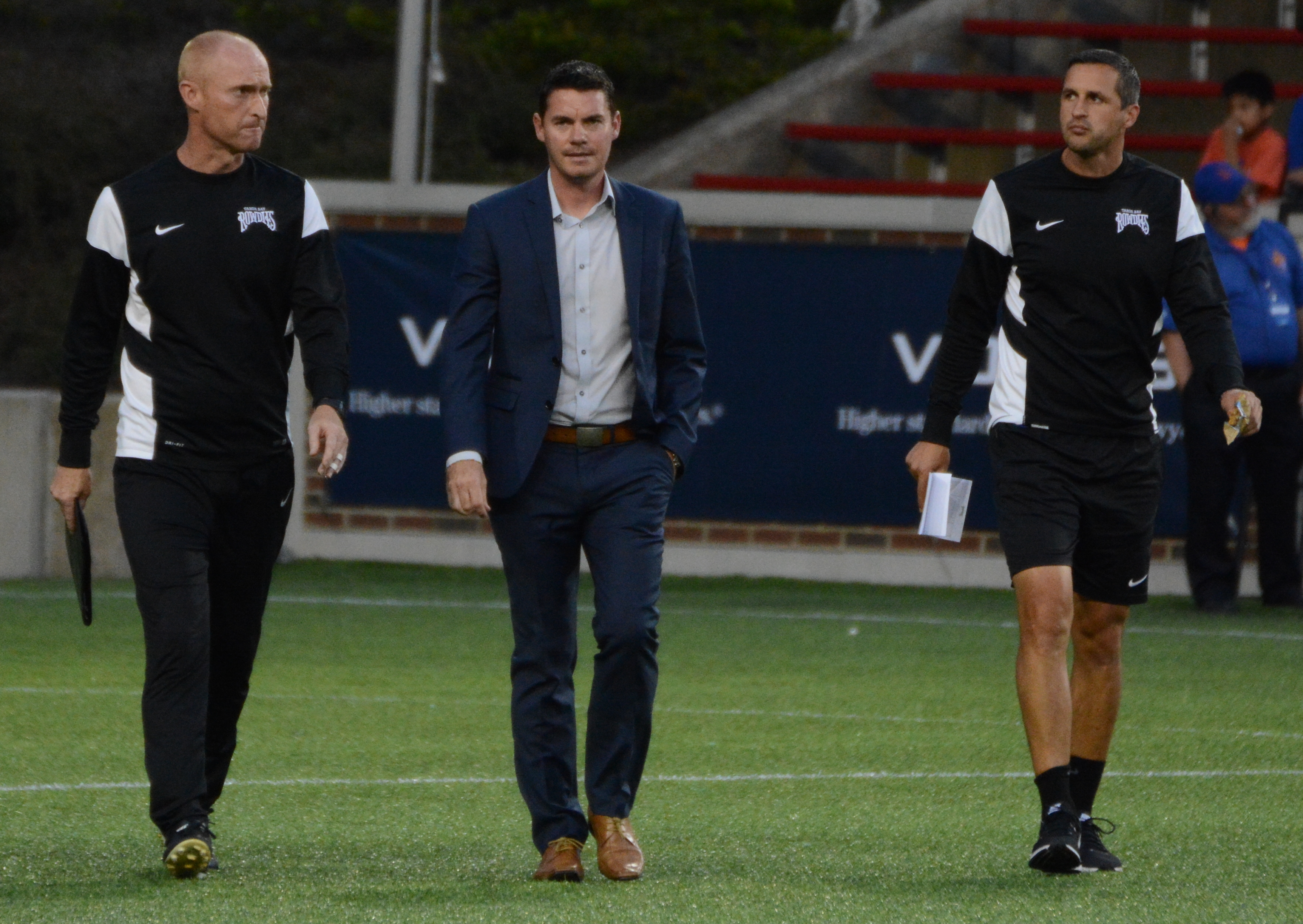 Stuart Dobson, Stuart Campbell, Raoul Voss Taken during a match between FC Cincinnati and Tampa Bay Rowdies at Nippert Stadium in Cincinnati, USA on April 19, 2017.